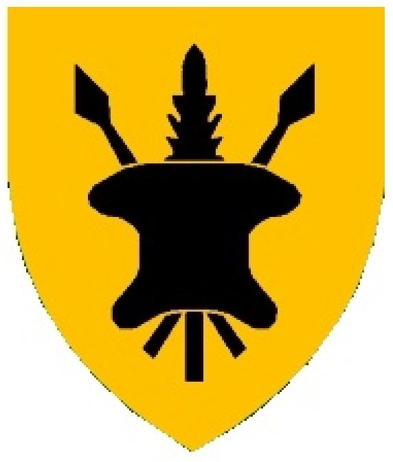 SADF 151 Battalion emblem